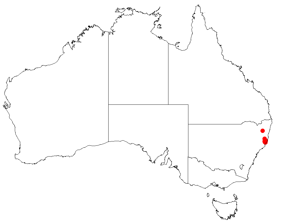 Hakea archaeoides Occurrence data downloaded from Australasian Virtual Herbarium on 22 November 2018 using